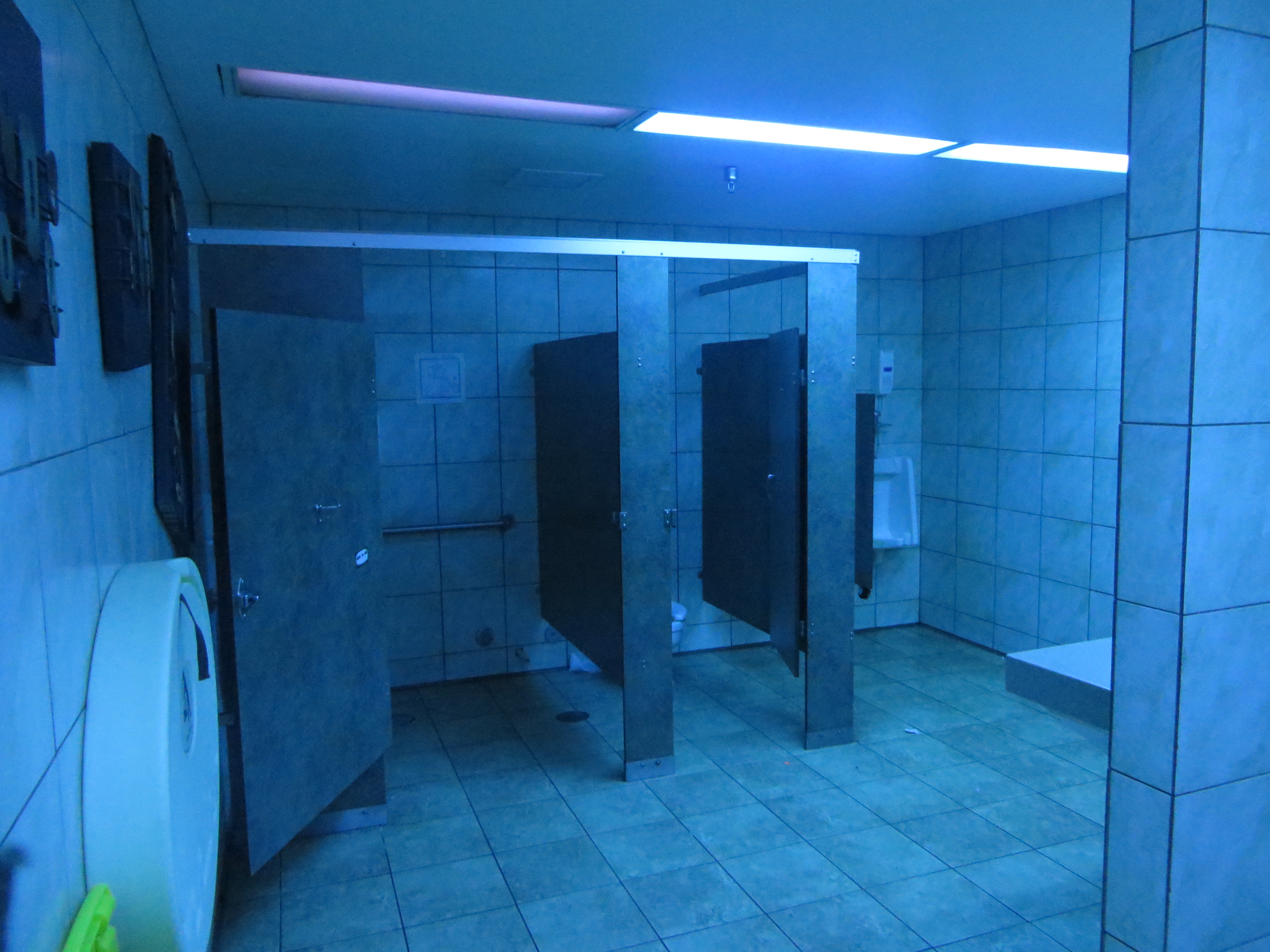 A toilet for supermarket customers uses very dim, blue lighting to deter heroin users from injecting. The blue gloom makes veins impossible to see. The approach is controversial and not completely effective.Note: The camera's electronics compensated for the dimness so the picture is somewhat brighter than the eye could actually see.